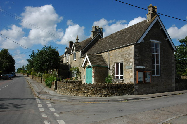 Village Hall, Shipton Moyne The Village Hall in Shipton Moyne is opposite the pub and on the corner of Church Lane.